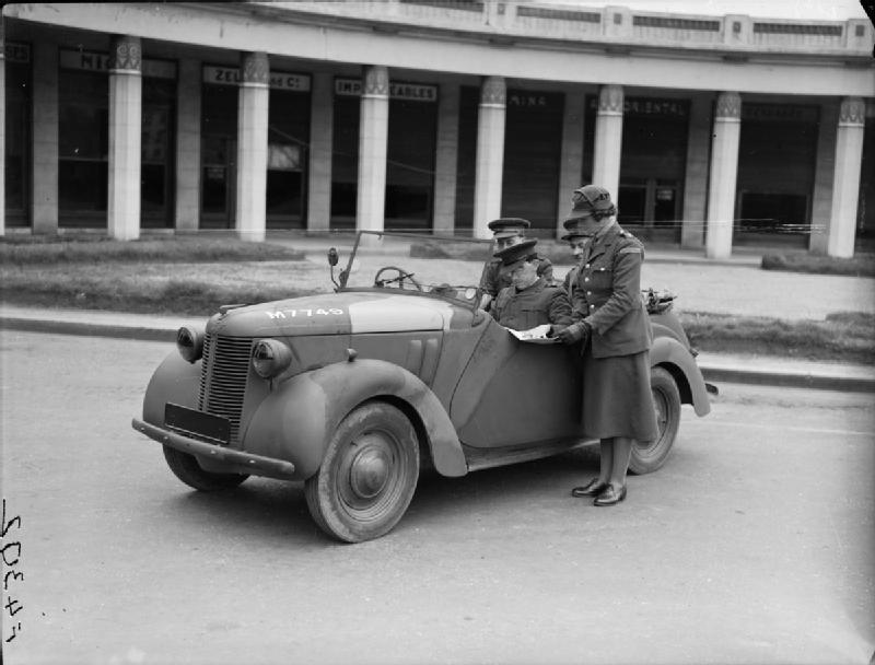 The British Army in France 1940 Austin 8hp AP two-seater in military use, 9 May 1940.